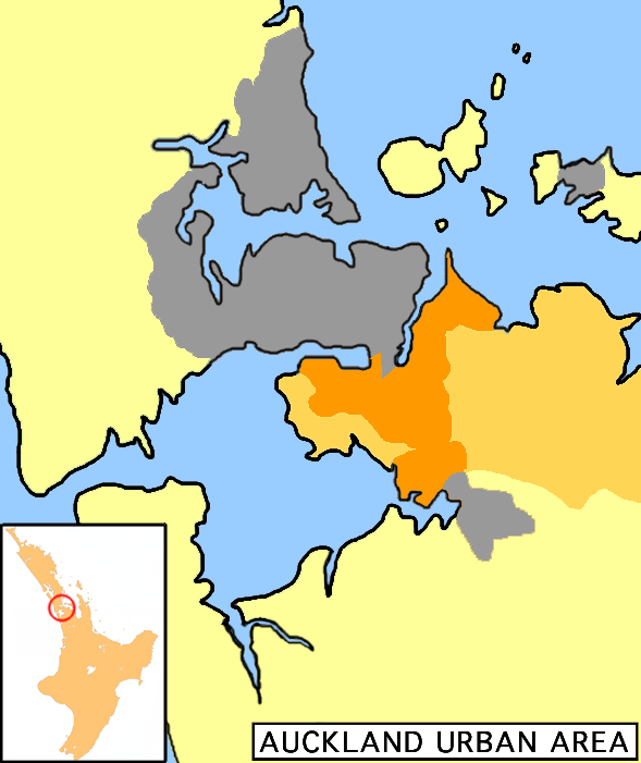 Uploaded from the English Wikipedia, uploaded there by user:Grutness: Map of Auckland urban area, Manukau City highlighted (dark orange=populated; light orange=rural areas).